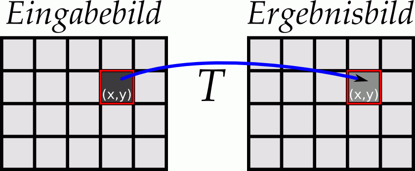 Grauwert-Transformation des Pixels (x,y) gray-level transformation of the pixel (x,y)